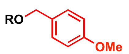 General PMB protected alcohol